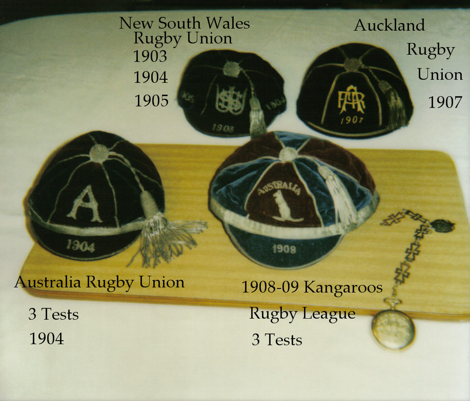 Rugby Honour Caps & Gold Watch of Patrick Bernard'Nimmo'Walsh.